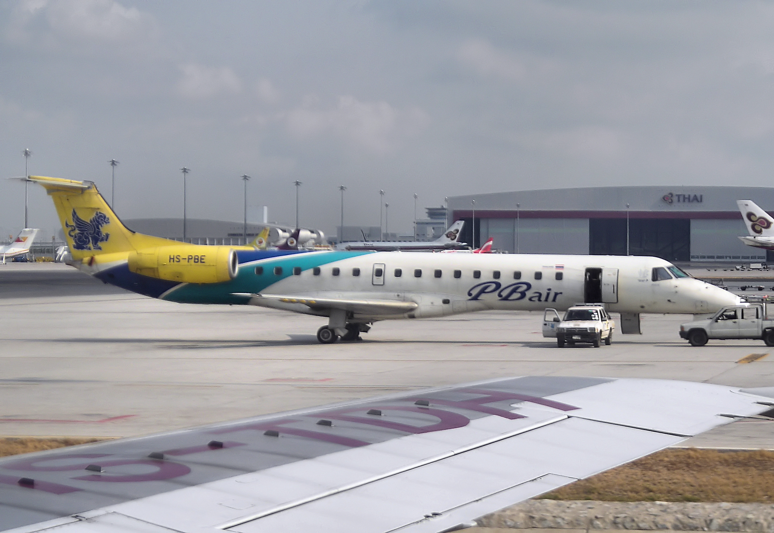 PBair Embraer ERJ-145 at Suvarnabhumi International Airport near Bangkok.